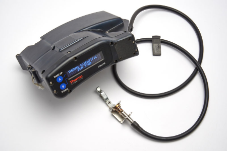 PDM 3700, a continuous personal dust monitory based on a Tapered element oscillating microbalance for use in coal mines